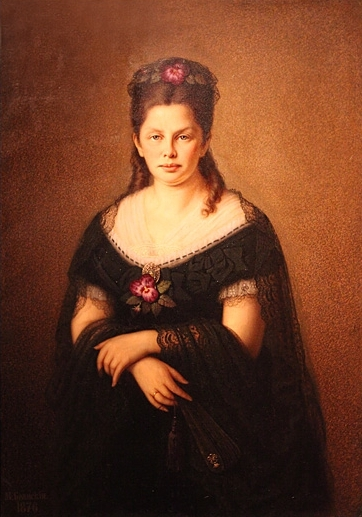 Portrait of Anna Filosofova née Diaghileva (1837-1912), 1876. Artist: Mikhail Bryansky (1830-1908). State Historical Museum.